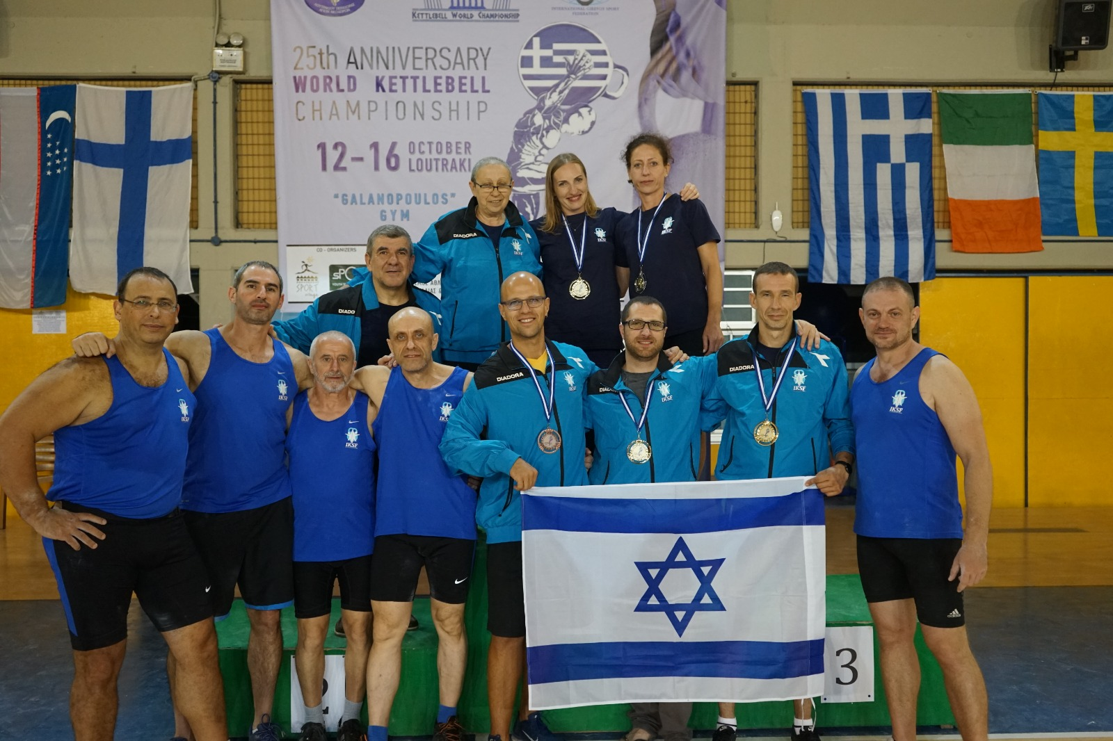 Греция, 25-й чемпионат мира, МФГС 2017